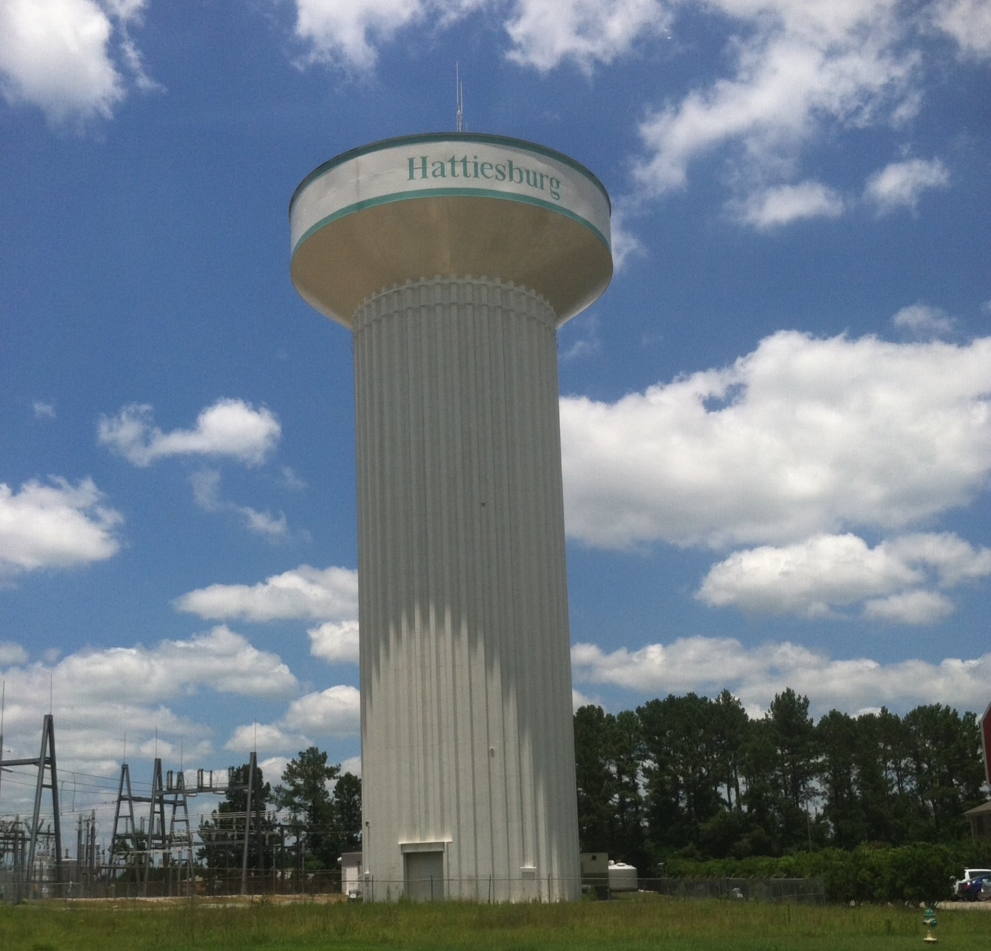 A water tower in Hattiesburg near Turtle Creek. The tower was repainted in 2016 with "Merit Health".